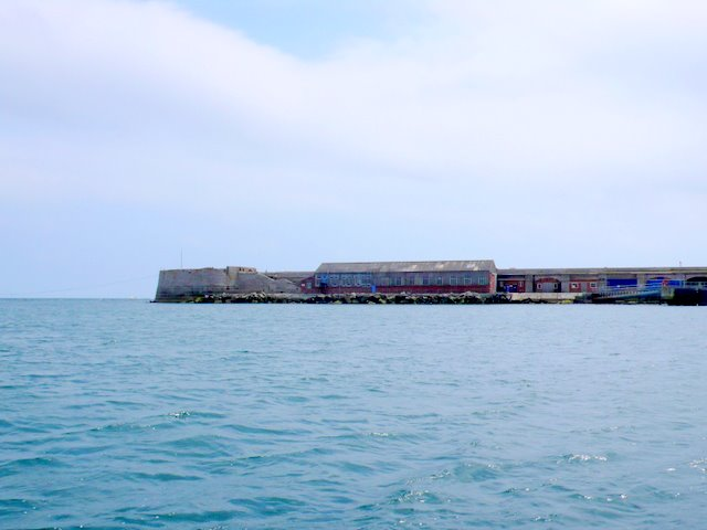 This shows the south ship channel entrance to Portland Harbour on the left. The breakwater is attached to the Island of Portland out of image to the right. A chain is extended across the opening to prevent vessels from using it.